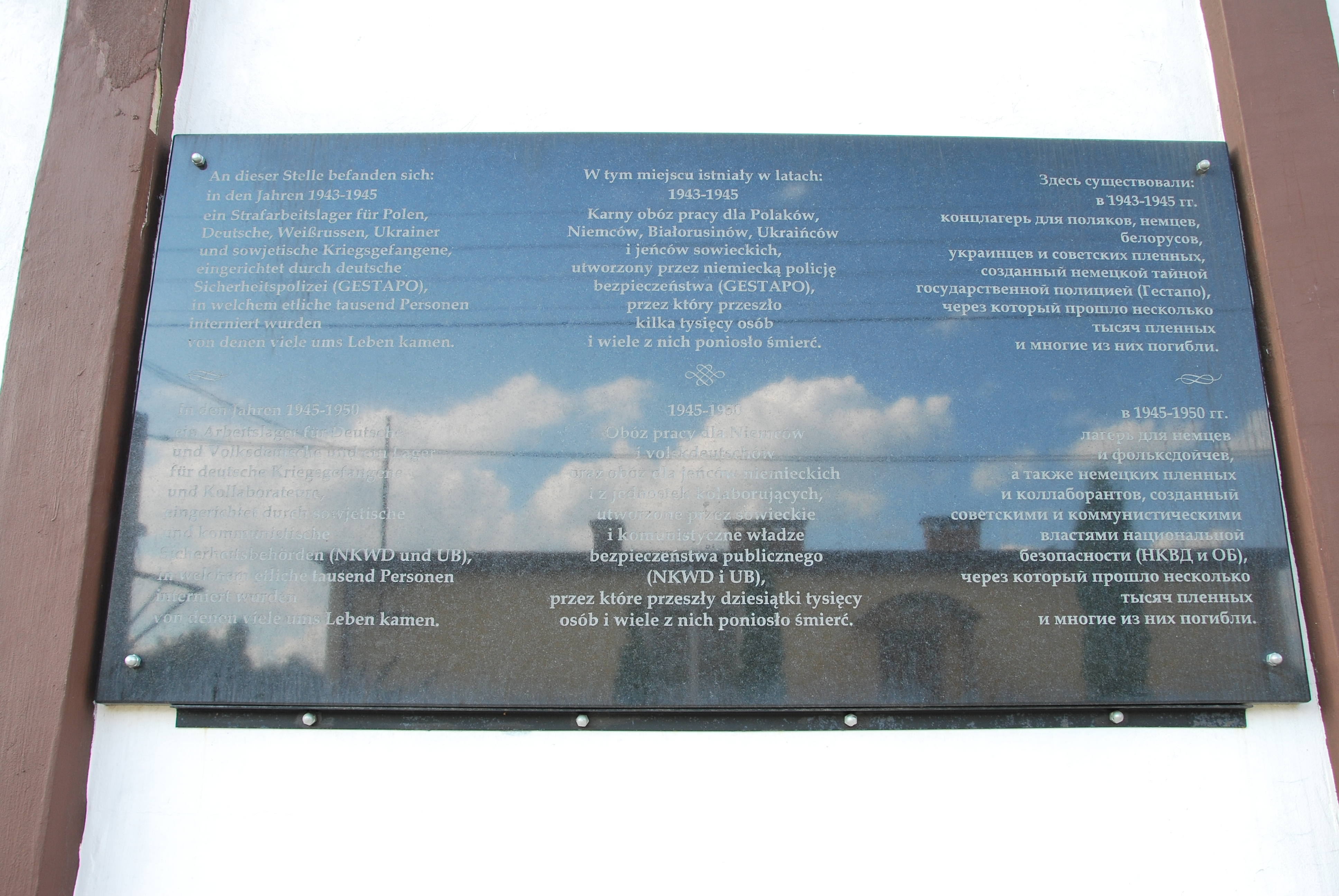 Plaque about labour camp 1943-1950, Łódź Beskidzka Street